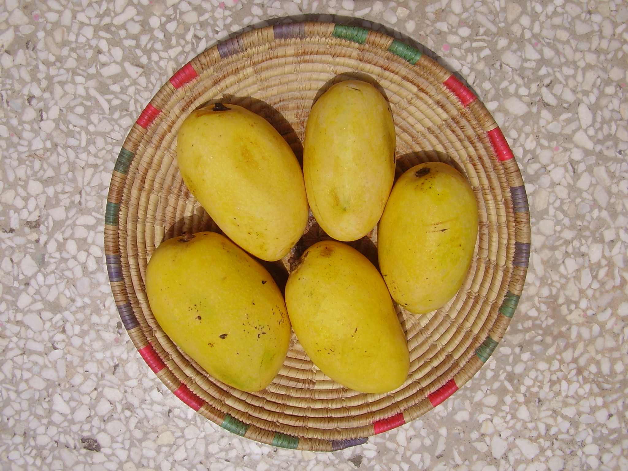 Chaunsa Mango, a famous variety of mango in Pakistan